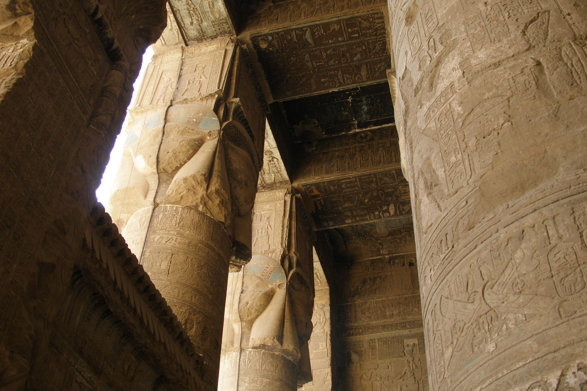 Dendera Temple, Egypt. It is one of the best preserved complexes in Egypt. The main temple, namely Hathor temple (historically, called the Temple of Tentyra). The temple has been modified on the same site dating as far back as the Middle Kingdom, having modification done it up to the Roman emperor Trajan. The temple construction is estimated at the 1st century BC. The existing structure was built no later than the late Ptolemaic period. The temple, dedicated to Hathor, is one of the best preserved temples in all Egypt. Subsequent additions were added in Roman times.